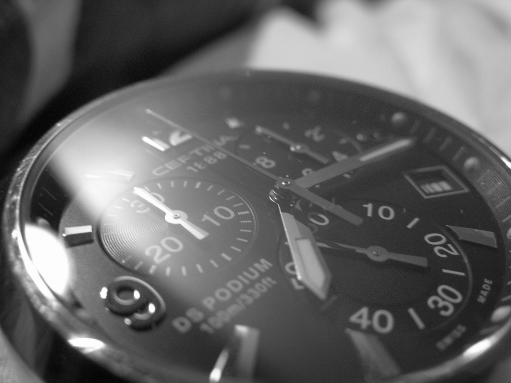 Photo of a Certina DS Podium watch